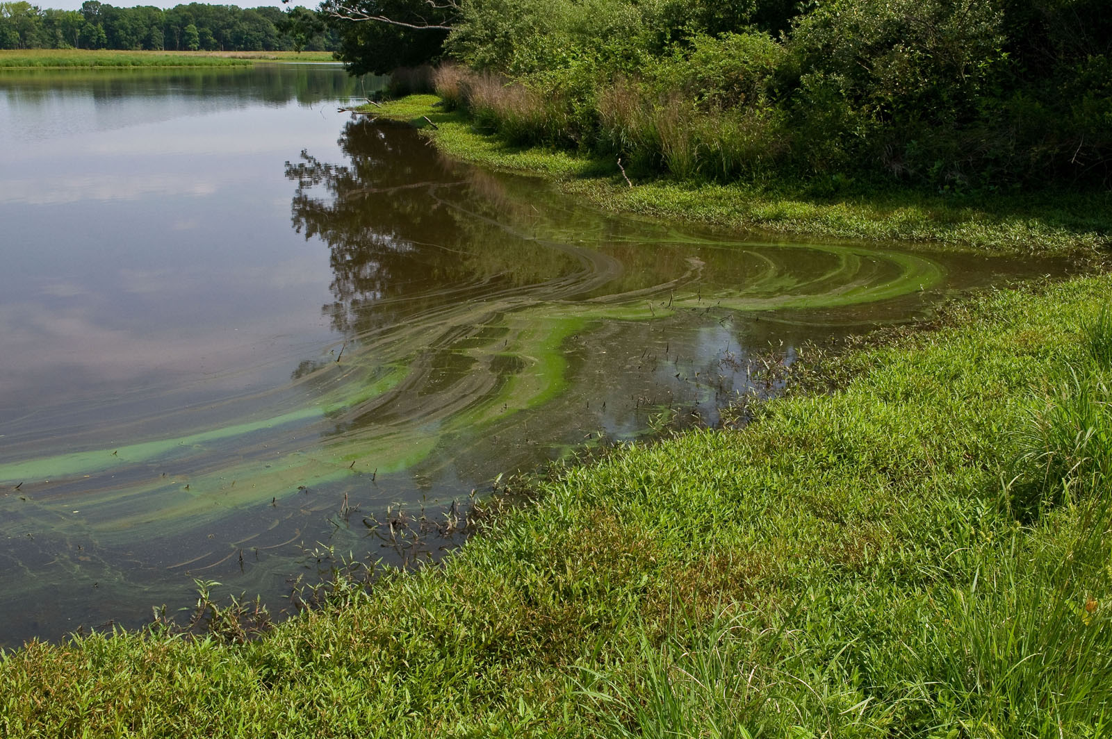 Nitrogen and phosphorus support the growth of algae and aquatic plants, which provide food and habitat for fish, shellfish and smaller organisms that live in water. When too much nitrogen and phosphorus enter the environment - usually from a wide range of human activities - the air and water can become polluted. Excess nitrogen and phosphorus cause an overgrowth of algae in a short period of time and cause what is generally known as an algal bloom. Too much nitrogen and phosphorus in the water causes algae to grow faster than ecosystems can handle. Significant increases in algae harm water quality, food resources and habitats, and decrease the oxygen that fish and other aquatic life need to survive. For more information, visit Photo by Eric Vance, U.S. EPA.